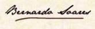 Signature of Bernardo Soares, Fernando Pessoa's semi-heteronym, author of The Book of Disquiet.